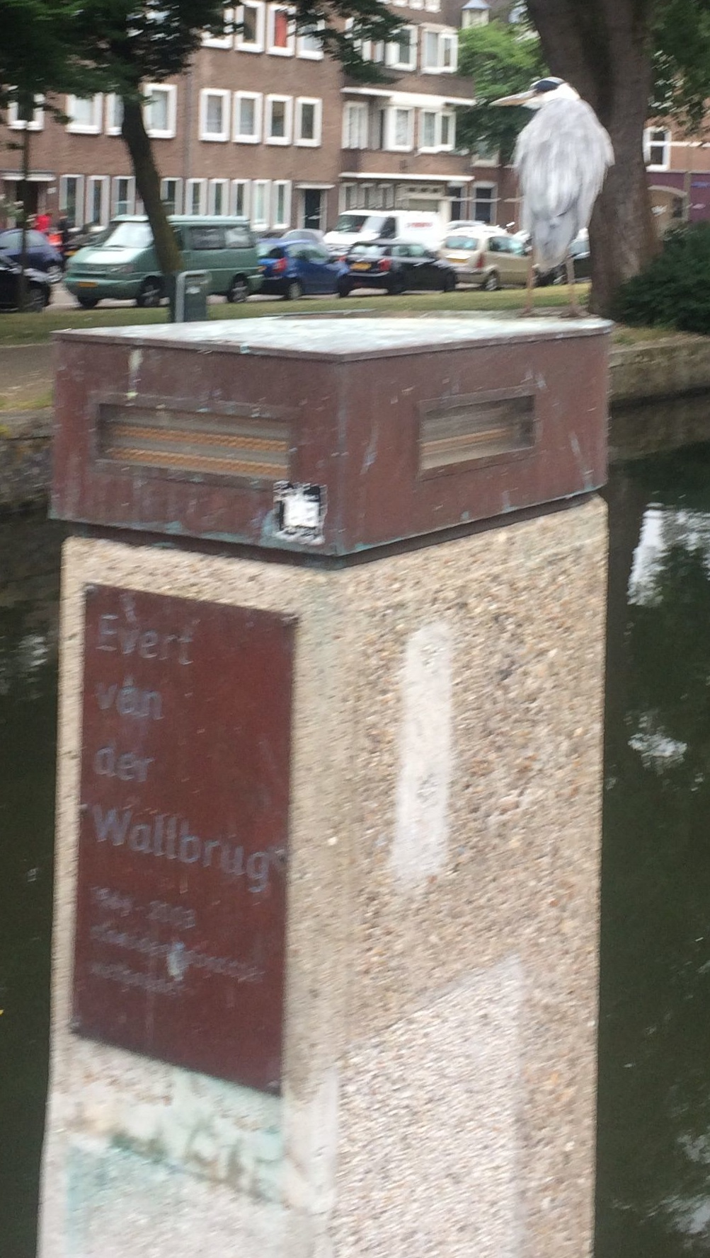 Bridge in Amsterdam Oost near Oranje Vrijstaatkade